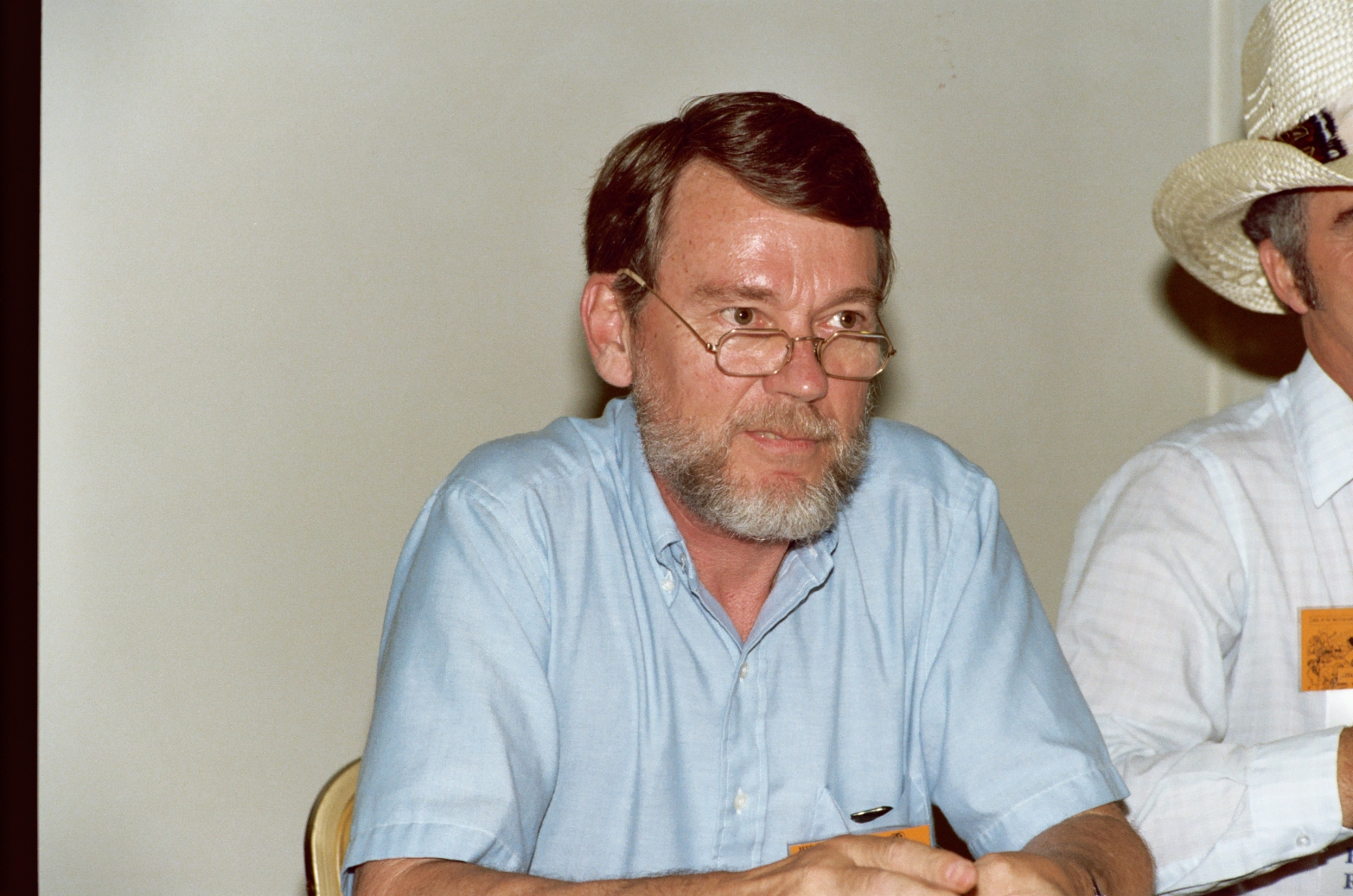 Dave Graue (1926-2001) who was doing the Alley Oop comic strip at the time. Graue retired from cartooning in August, 2001, and was killed in an automobile accident four months later. NOTE: Permission granted to copy, publish, broadcast or post any of my photos, but please credit "photo by Alan Light" if you can. Thanks.